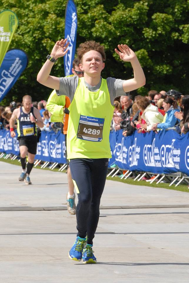 A runner crosses the finish line at the Edinburgh Marathon.